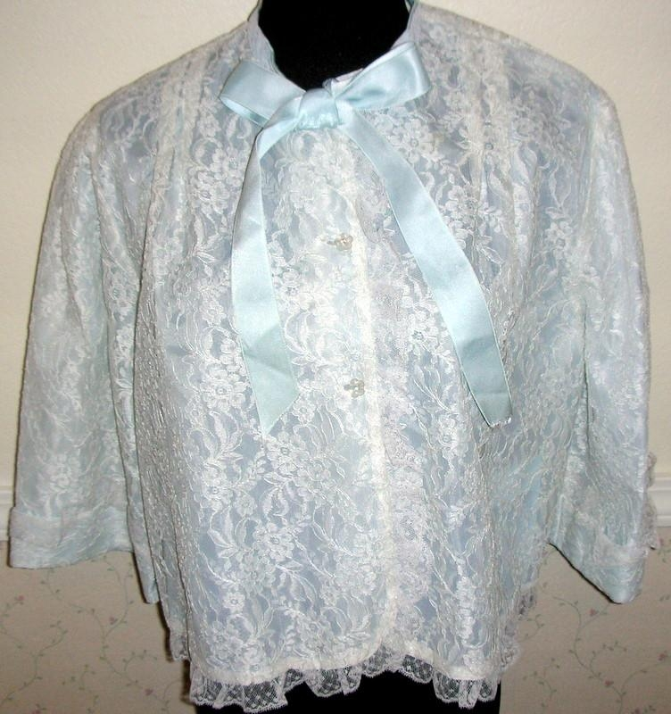 own work